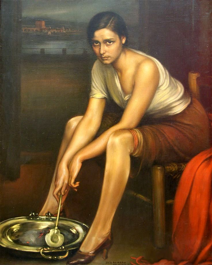 La chiquita piconera by Julio Romero de Torres. (Museo de Julio Romero de Torres, Córdoba, 1930. Oil and tempera on canvas. 169 x 200 cm.